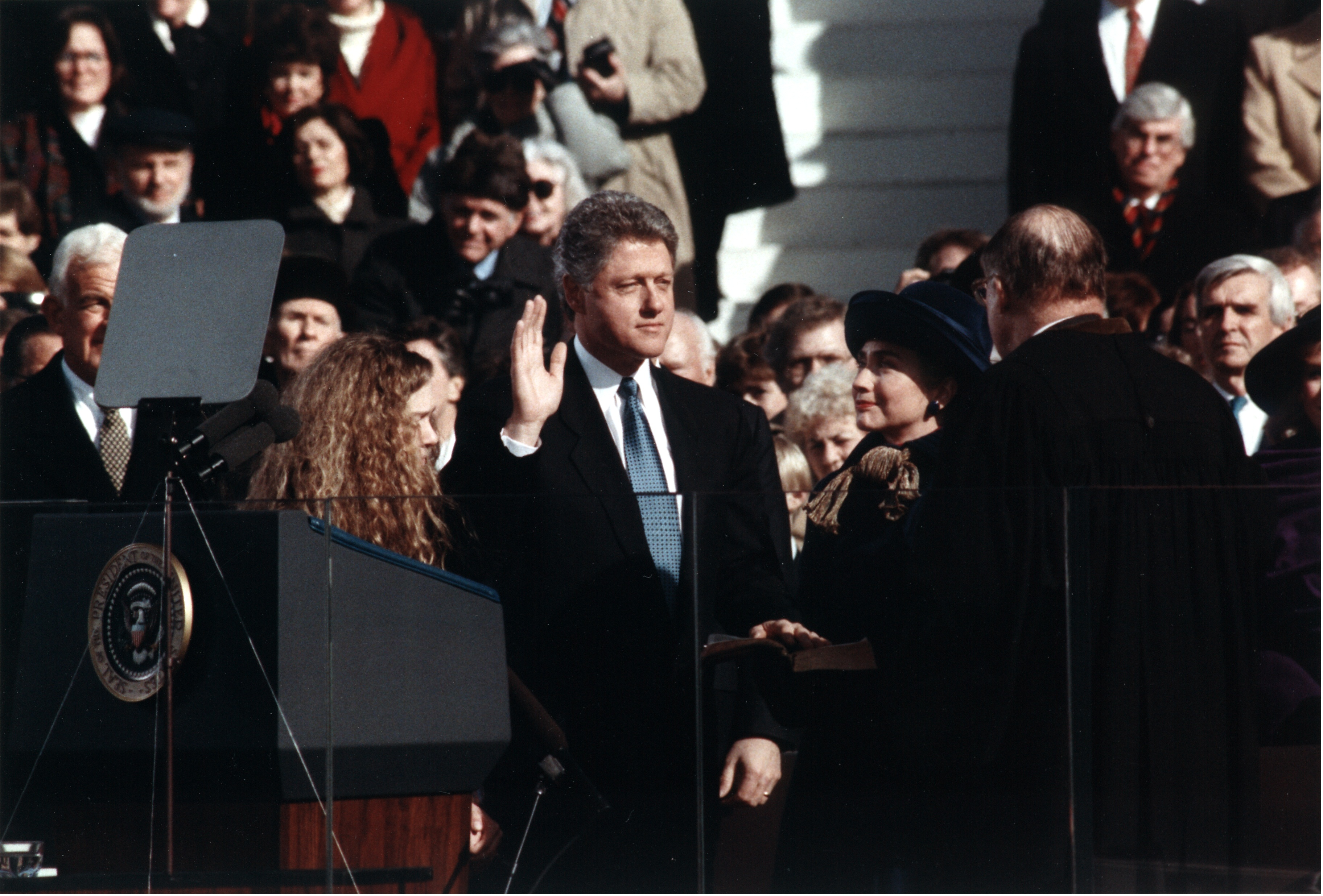 Bill Clinton, standing between Hillary Rodham Clinton and Chelsea Clinton, taking the oath of office of President of the United States.